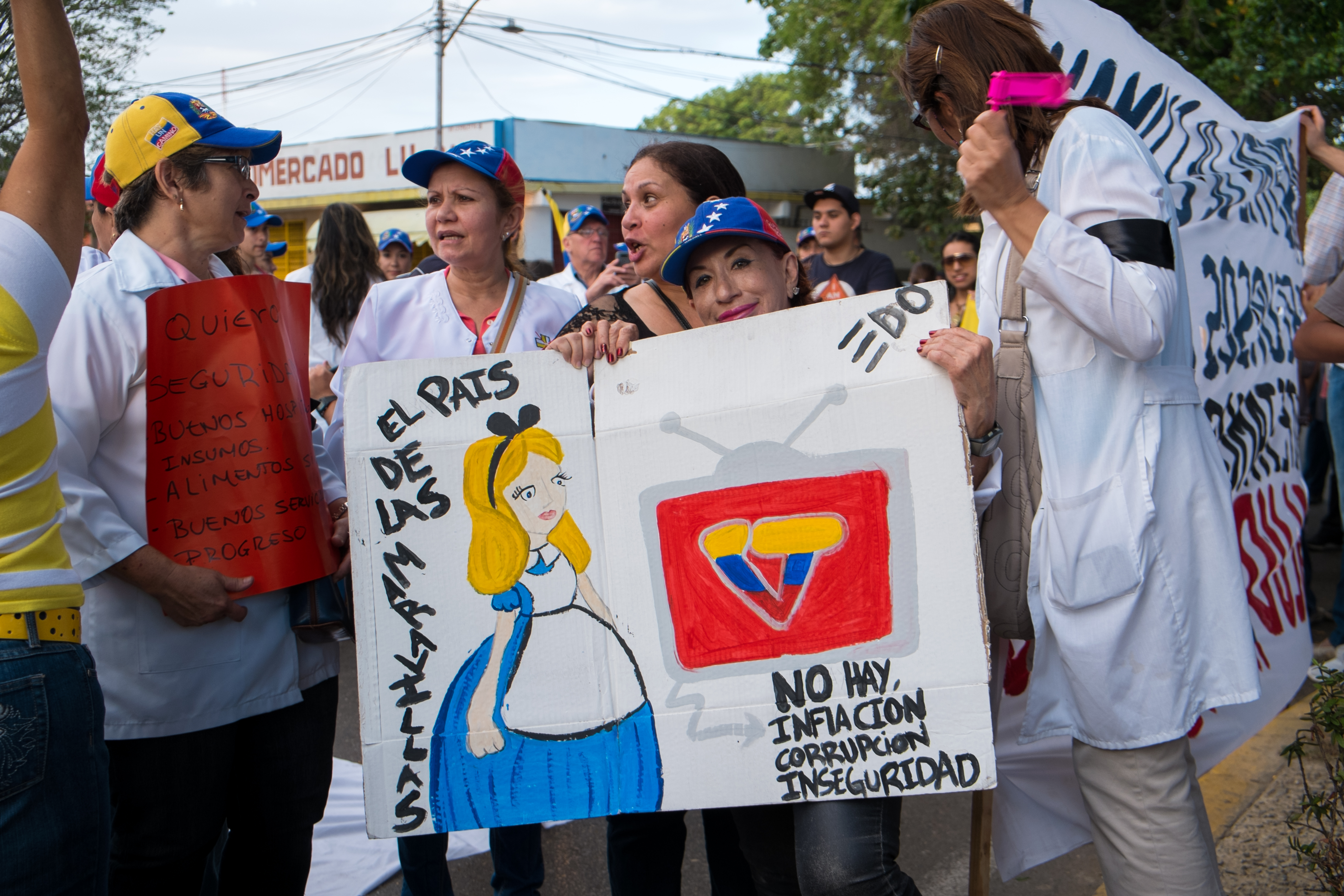 Protest in Venezuela against government censorship